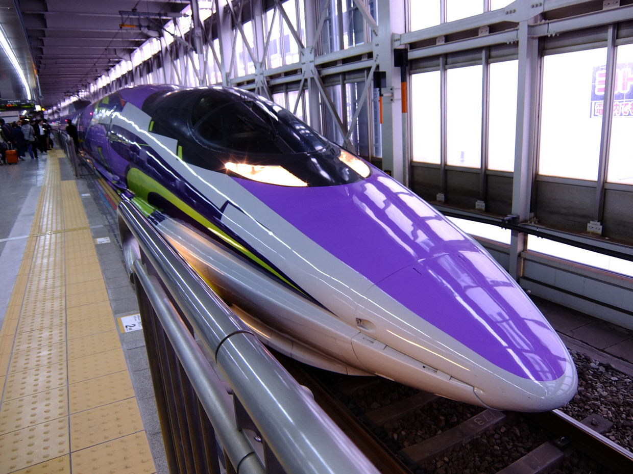 JR West 500 series shinkansen V2 in special "500 TYPE EVA" livery at Hakata Station